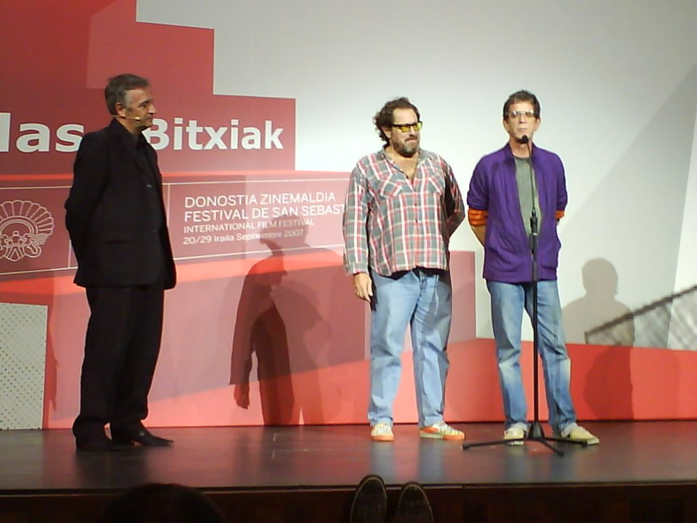 Julian Schnabel & Lou Reed present Berlin